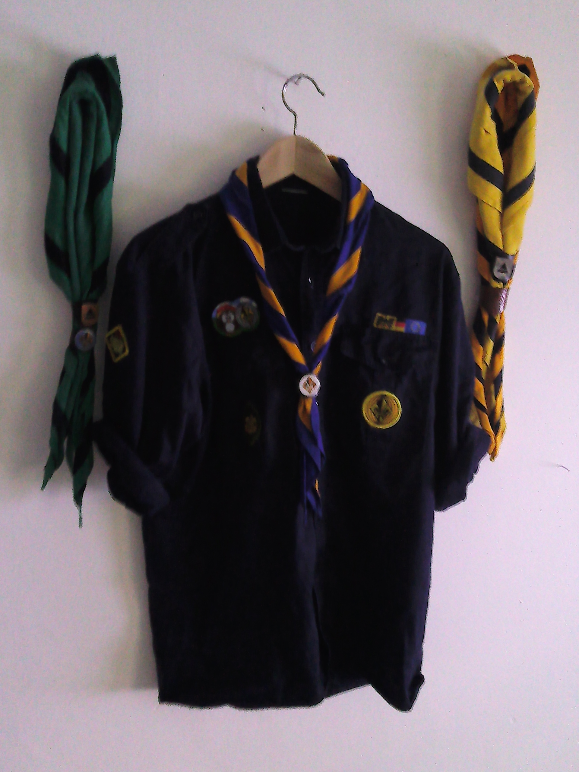 The uniform and different kind of neckerchiefs and woogles of the Pfadfinderbund Weltenbummler